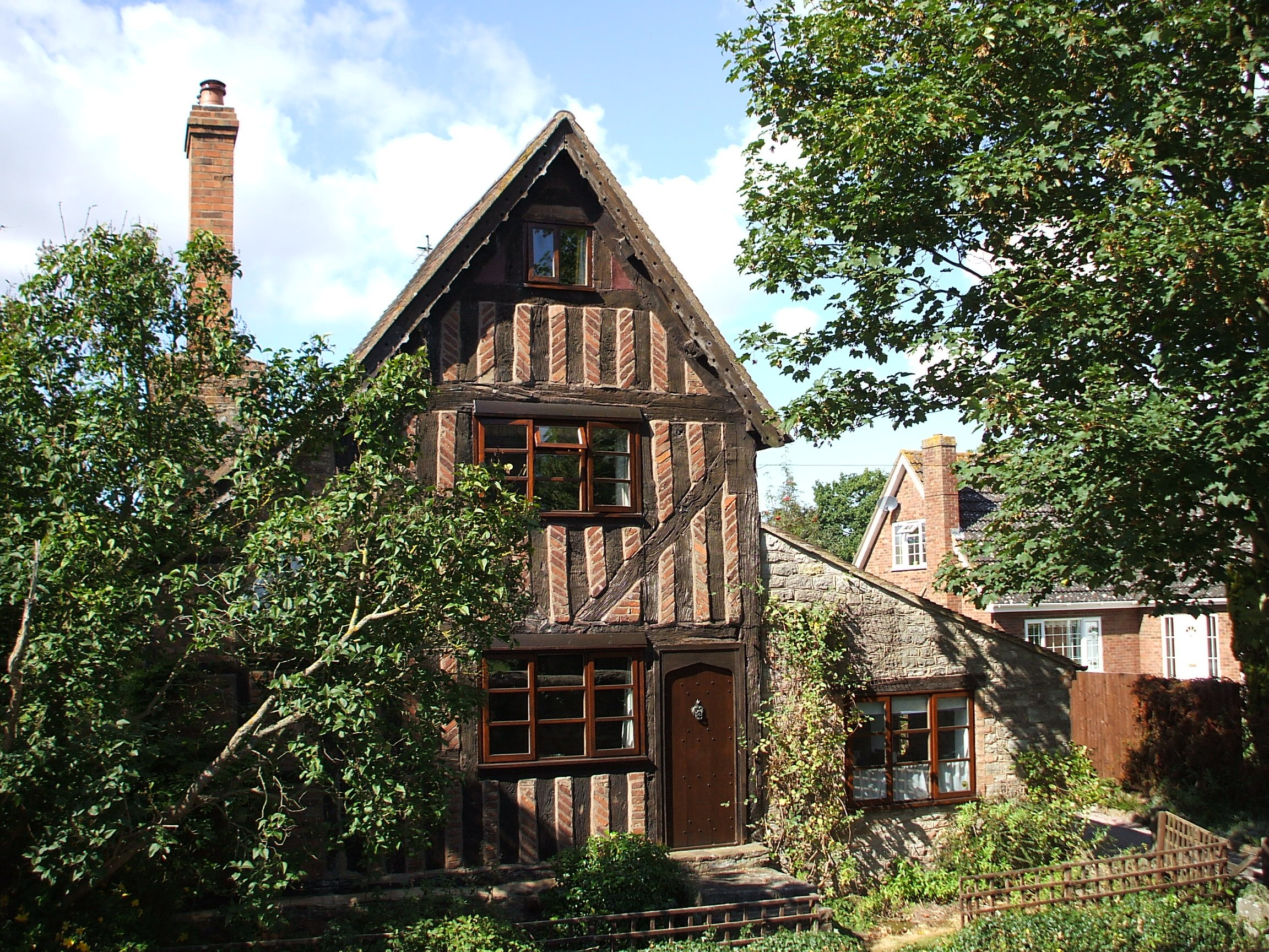 Old Building at Redmarley D'Abitot, Gloucestershire